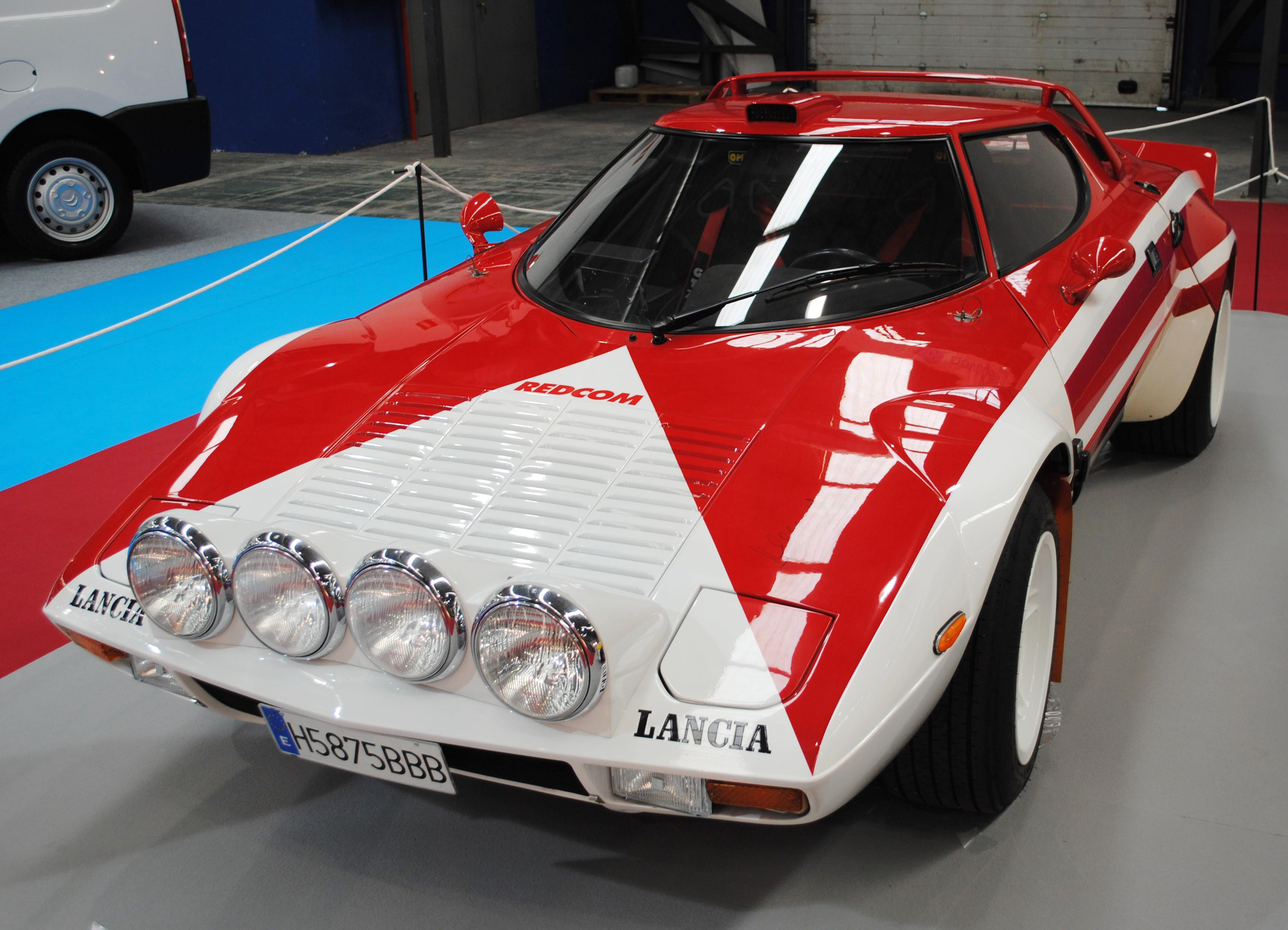 Lancia Stratos, IFEVI, 2014.JPG